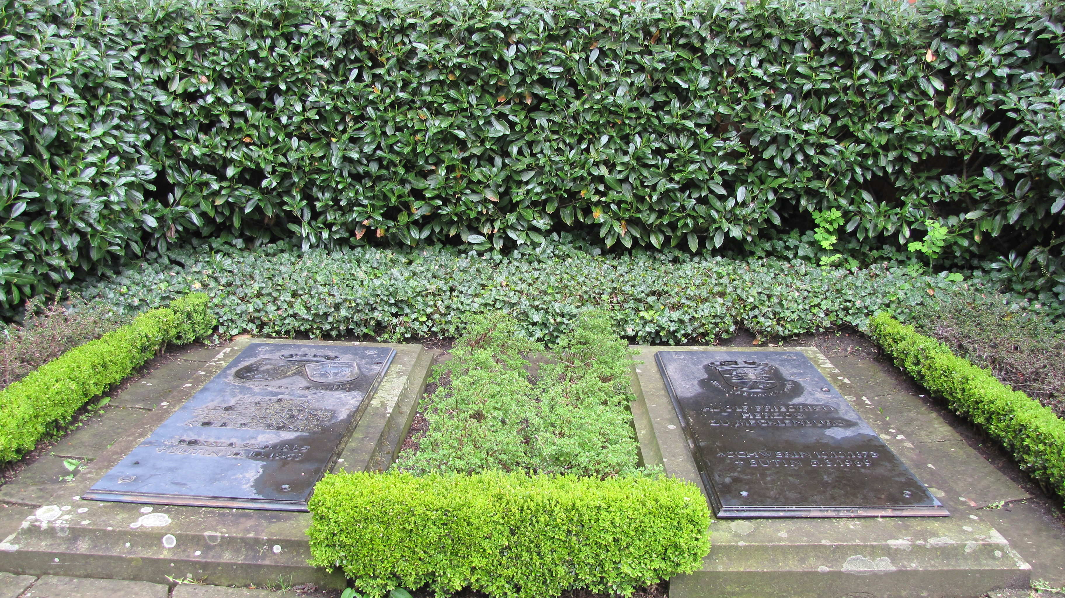 grave of Adolf Friedrich zu Mecklenburg and his second wife Elisabeth zu Stolberg-Roßla in the churchyard of Ratzeburg cathedral